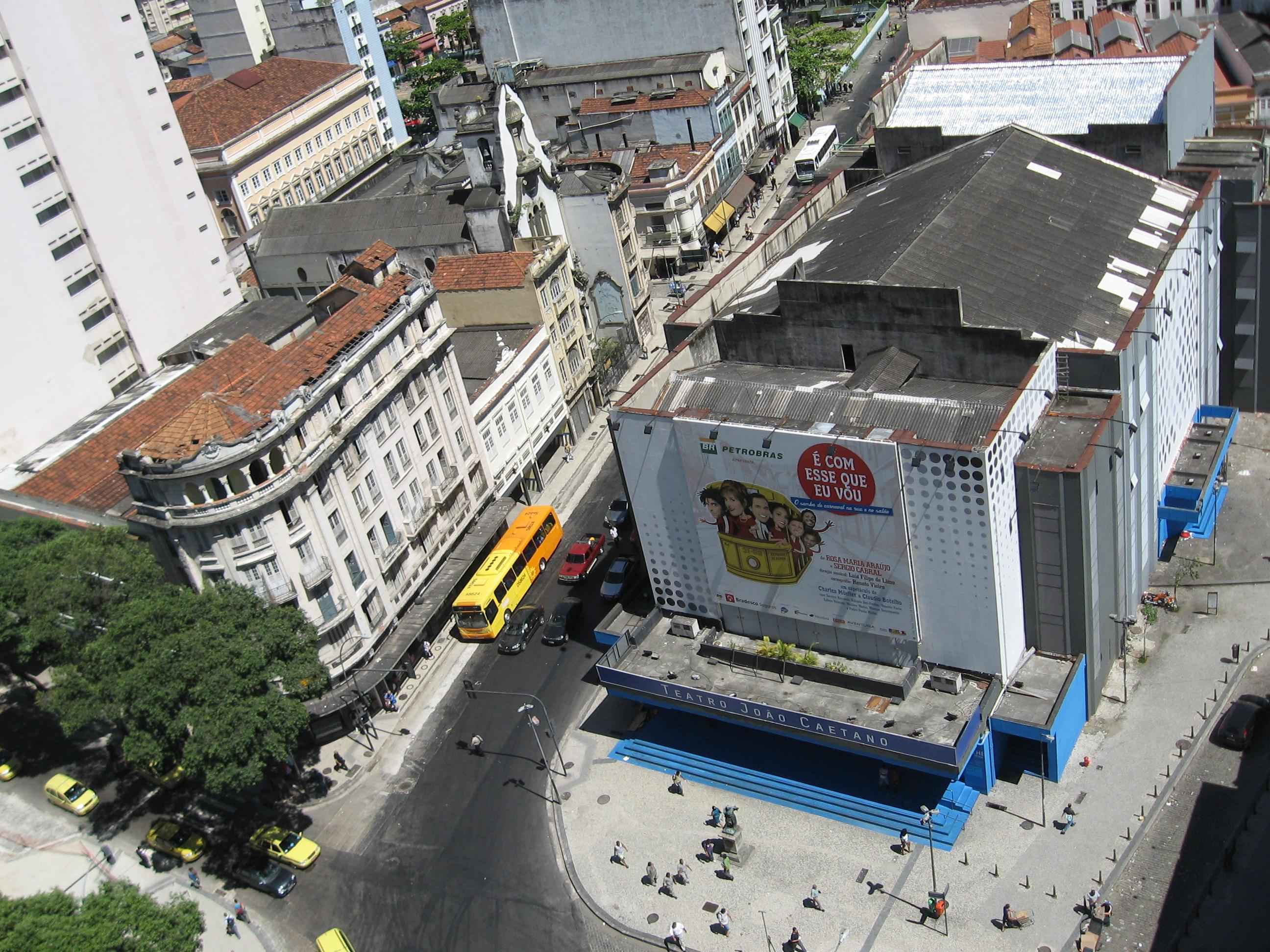 João Caetano Theather-Rio de Janeiro-Brazil